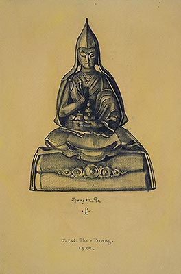 Nicholas Roerich "Tsong-Kha-Pa". Drawing.